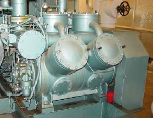 This photo of a small six-cylinder reciprocating compressor was obtained on March 23rd, 2007 from a USA government agency website at and was located on page 13 of the 31 pdf pages. The article was entitled "NISTIR 7183 Vibration Signatures for Three Positive Displacement Compressors". - mbeychok 18:10, 23 March 2007 (UTC)